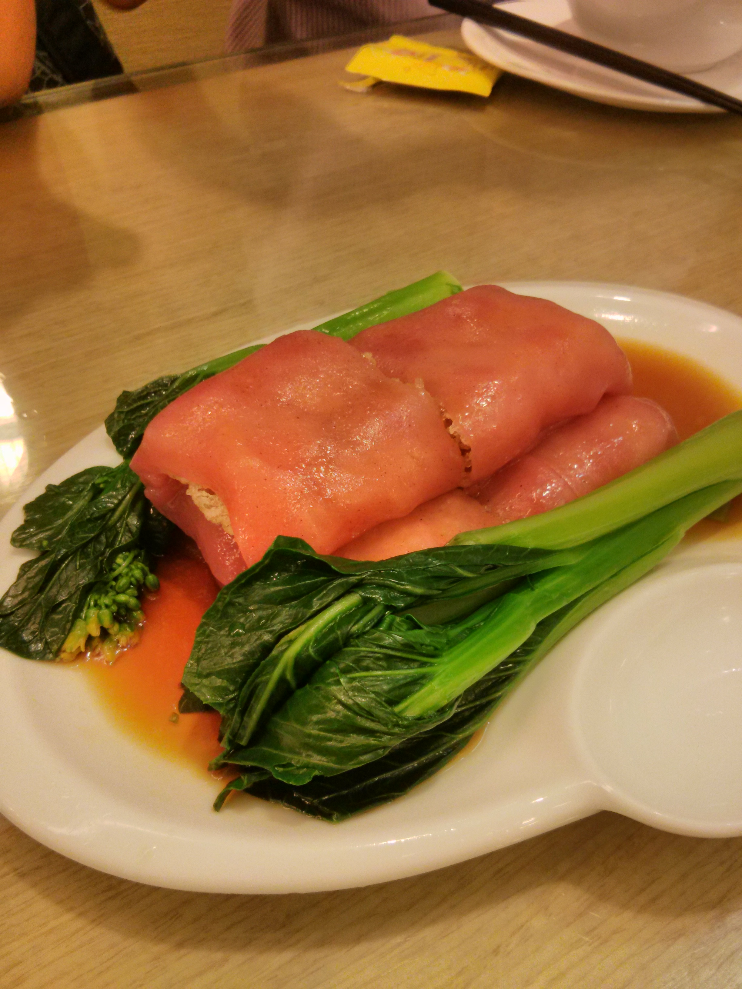 Red rice rolls 粵語: 紅米腸